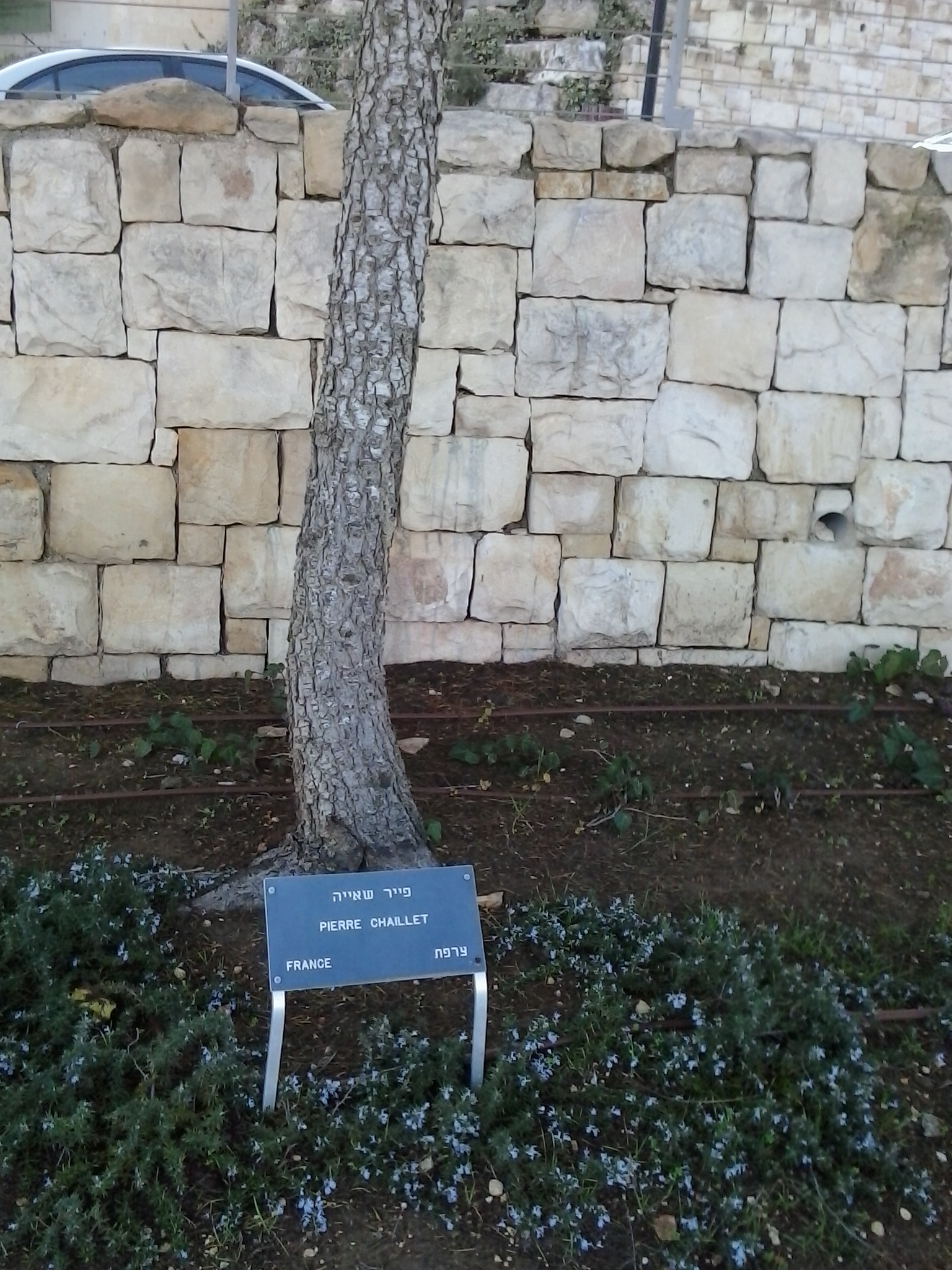 a tree planted at Yad Vashem honoring Pierre Chaillet